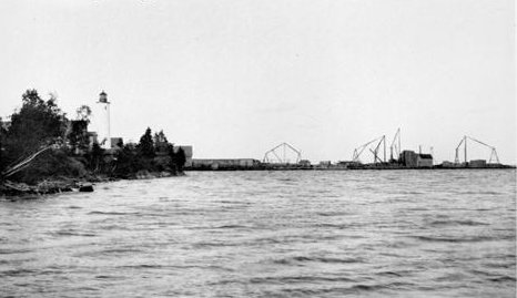 Near Portage Entry, Michigan. On the left is a lighthouse, to the right are docks from which Jacobsville Sandstone was shipped.